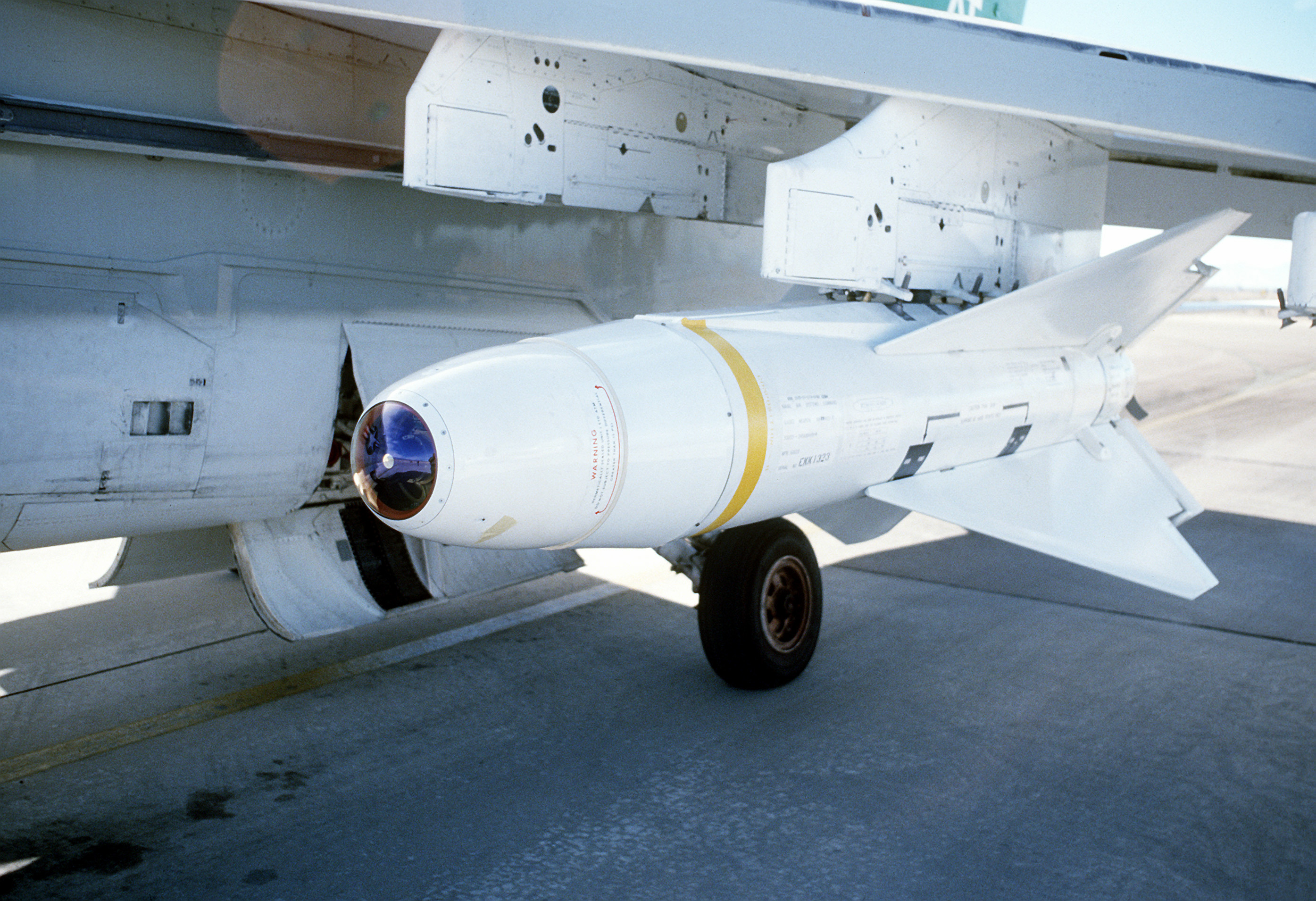 An AGM-62 Walleye glide bomb mounted on the wing pylon of a U.S. Navy Ling-Temco-Vought A-7C Corsair II of Air Test and Evaluation Squadron 5 (VX-5) at White Sands Missile Range, New Mexico (USA), on 1 December 1978.